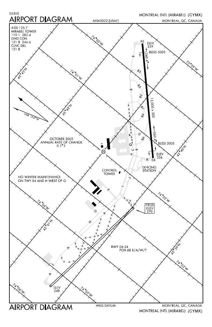 Diagram of Montréal-Mirabel International Airport. Based on [1] (link is dynamic, due to Representational State Transfer), produced by NACO and accessed from DAFIF at the NGA.